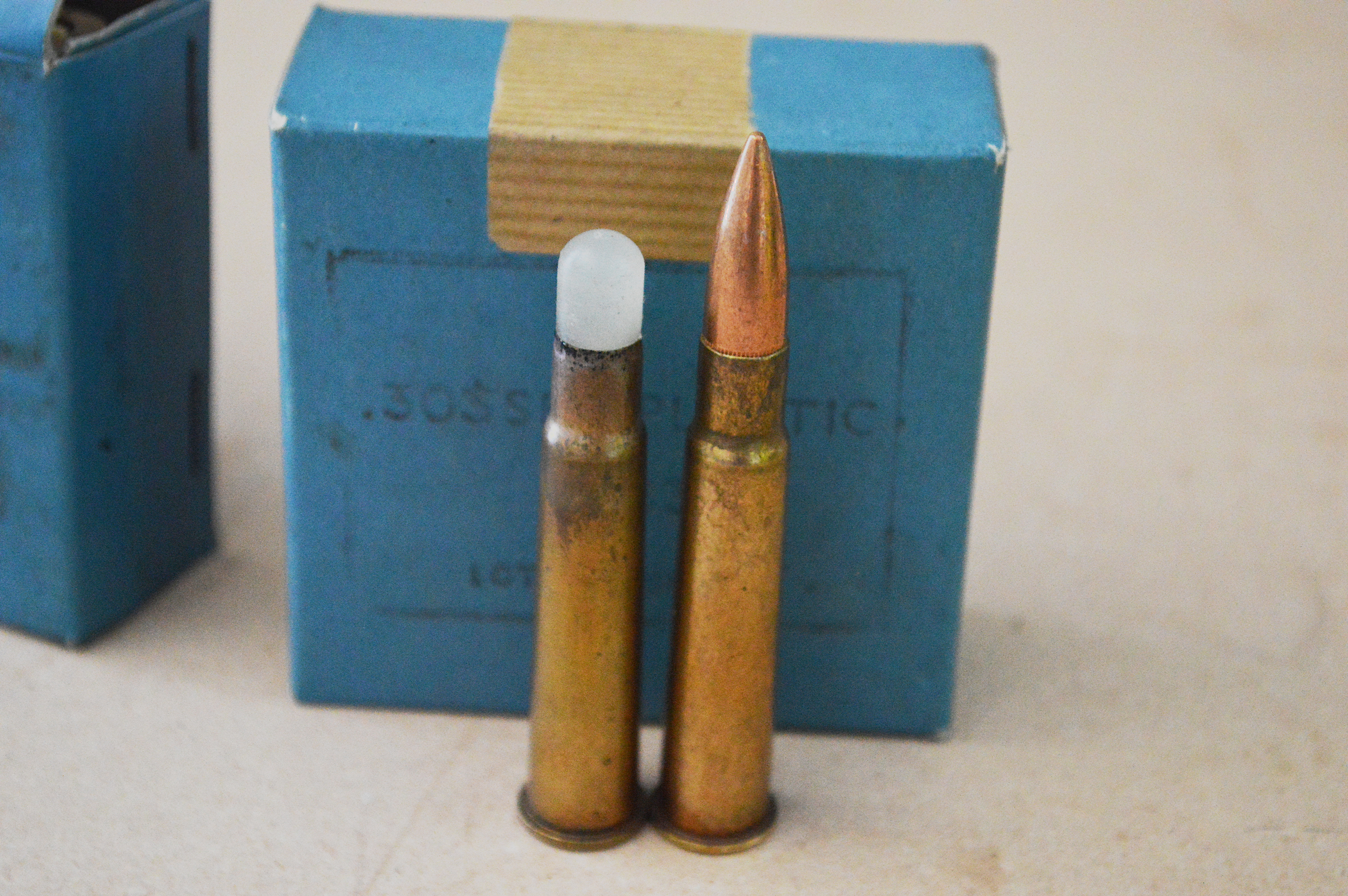 .303 British Riot Control Ammunition, FN 52 headstamped, 12 gr. plastic bullet corrosive ammunition.